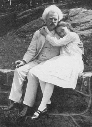 Mark Twain (1835-1910) and Dorothy Quick. Twain first met Quick in 1907, dating the photo to 1907-1910.